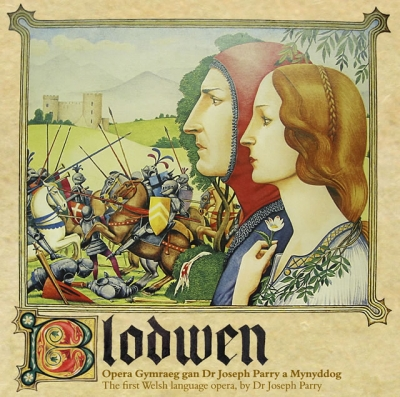 Artwork for the Boxed Set Blodwen by Menai Music Festival